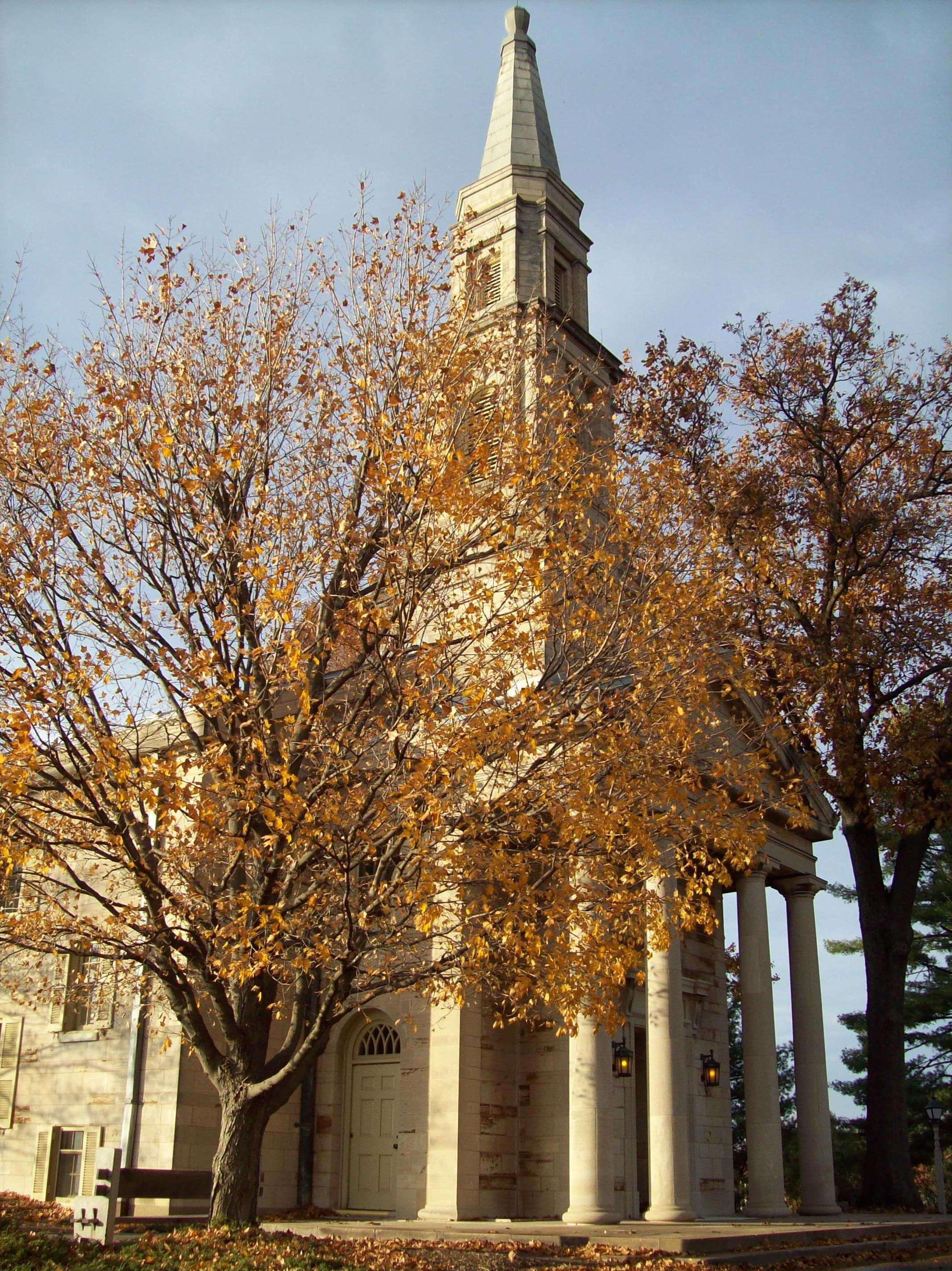 Exterior view of the Chapel — in the Principia College Historic District, Jersey County, Illinois. Designed by Bernard Maybeck (1934) in the Colonial Revival style. Maybeck also designed the campus master plan (1931-1934).